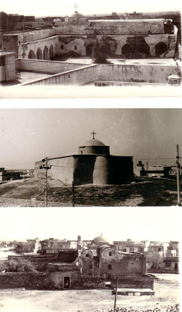 The Iraqi village of Baghdeda, in Ninewa. 1st: Church of Sarkis and Bakos 2nd: Church of Mart Shmony 3rd: Church of Mar Korkis